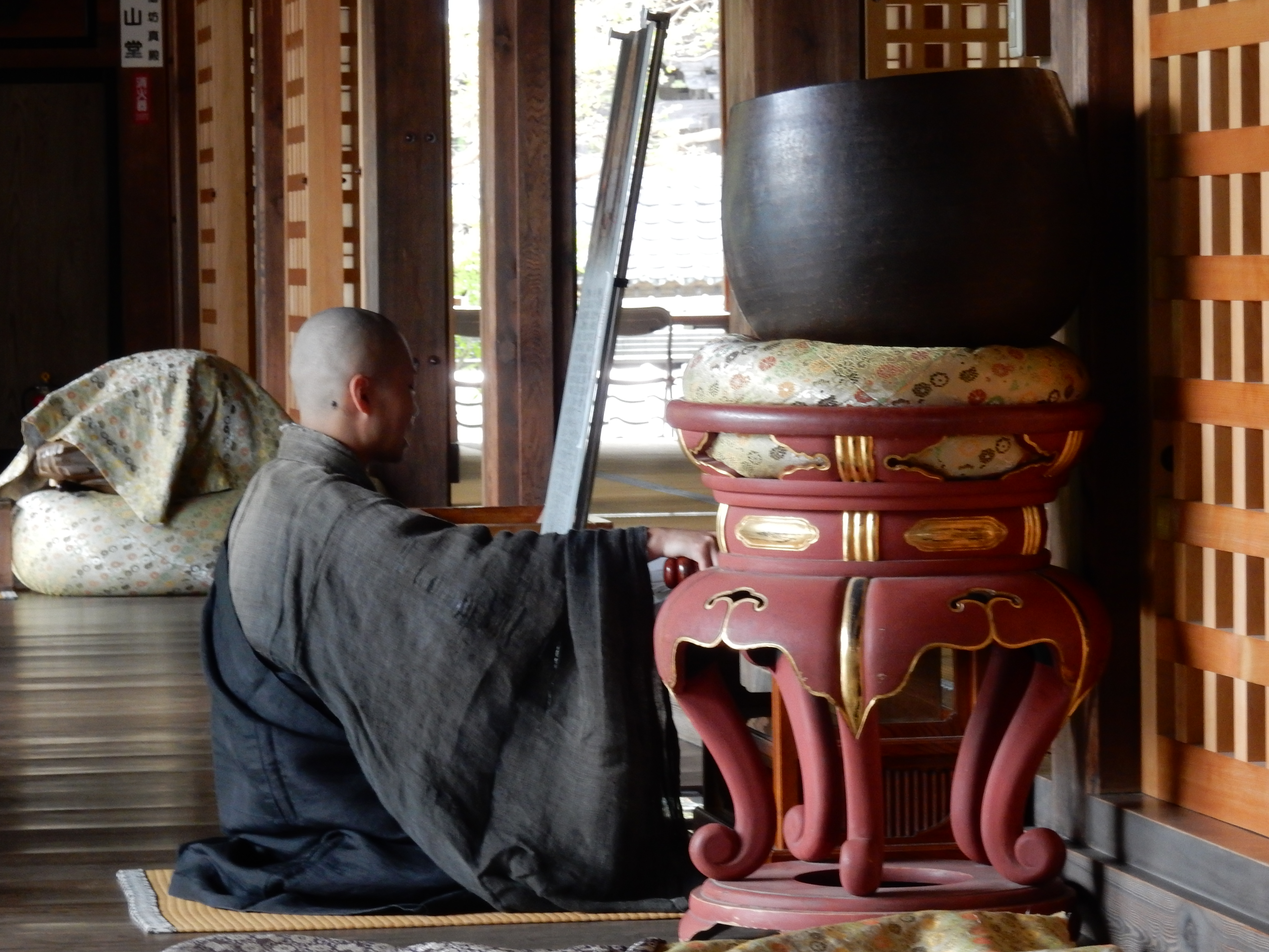 Buddhist monk seated in Seiza, chanting in Hokoji Temple (Hamamatsu City), Japan